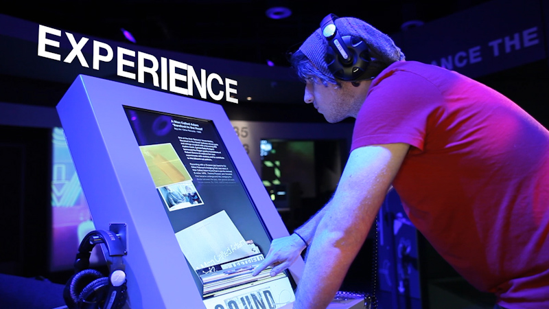 HEY DJ INTERATCIVE